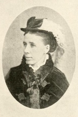 Photographic portrait of American musician and composer Constance Faunt Le Roy Runcie (1836-1911). From American Women: Fifteen Hundred Biographies with Over 1,400 Portraits, Frances E. Willard and Mary A. Livermore, editors. Mast, Crowell & Kirkpatrick, 1897 (revised edition from 1893), vol. 2, p. 625